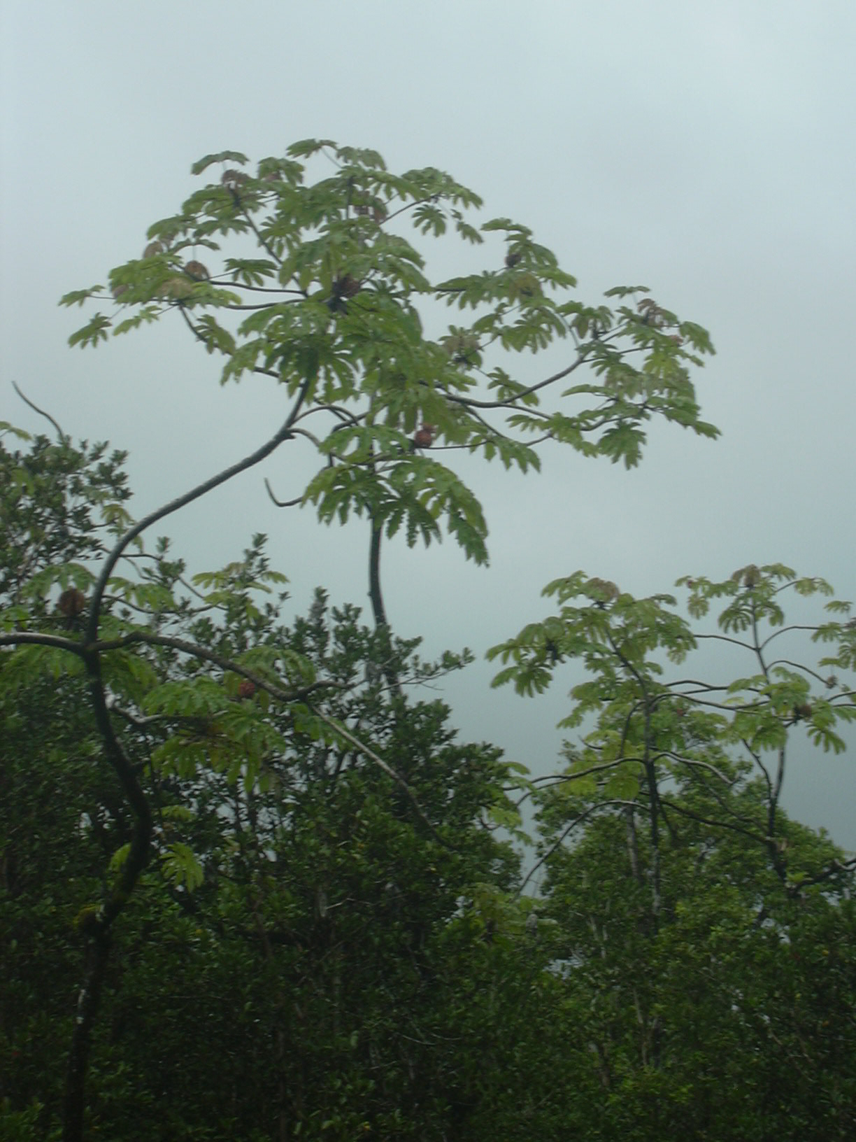 Cecropia obtusifolia (leaves). Location: Hawaii, Hilo